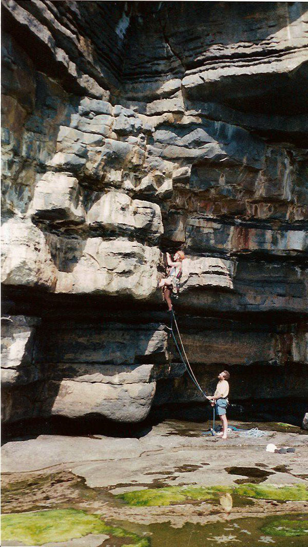 The author, a friend of mine, gave me permission to use it as a public-domain picture. It can also be seen at